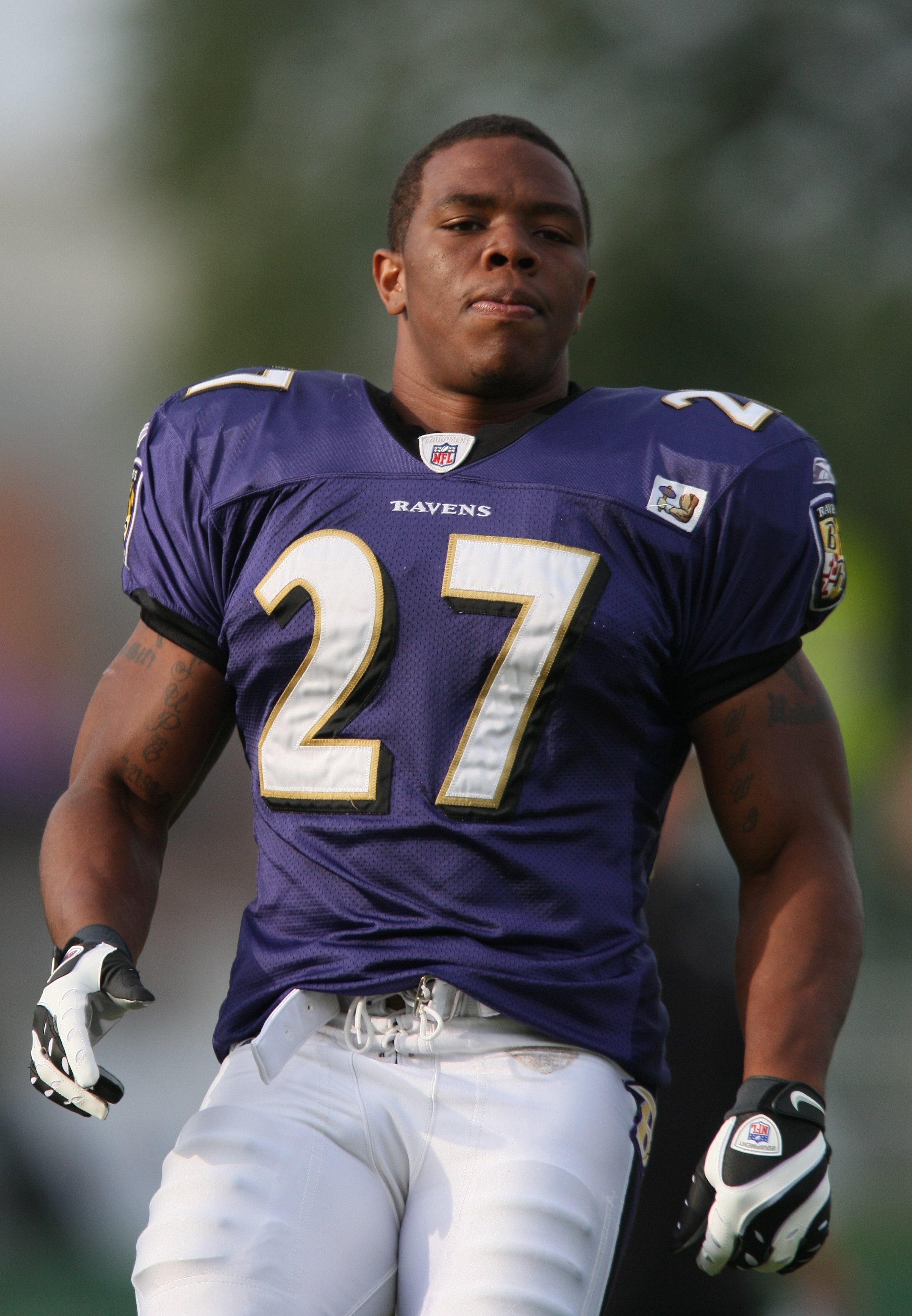 Baltimore Ravens Training Camp August 20, 2009